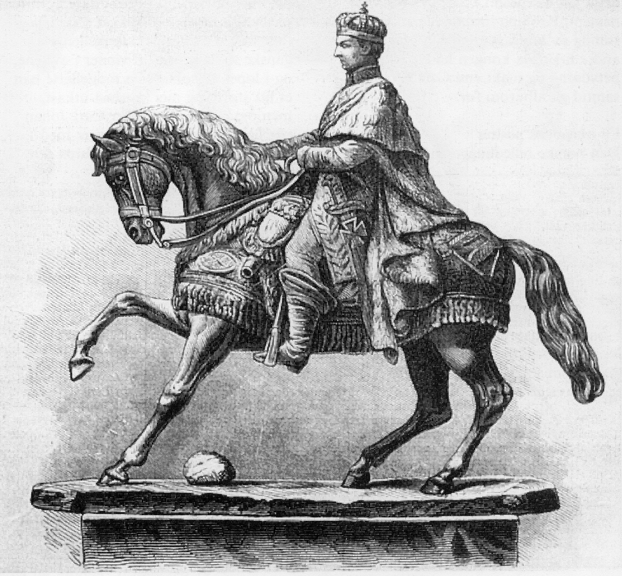 Sketch of Johan Peter Molin's suggestion for a monument of king Karl III Johan to be placed in downtown Oslo.